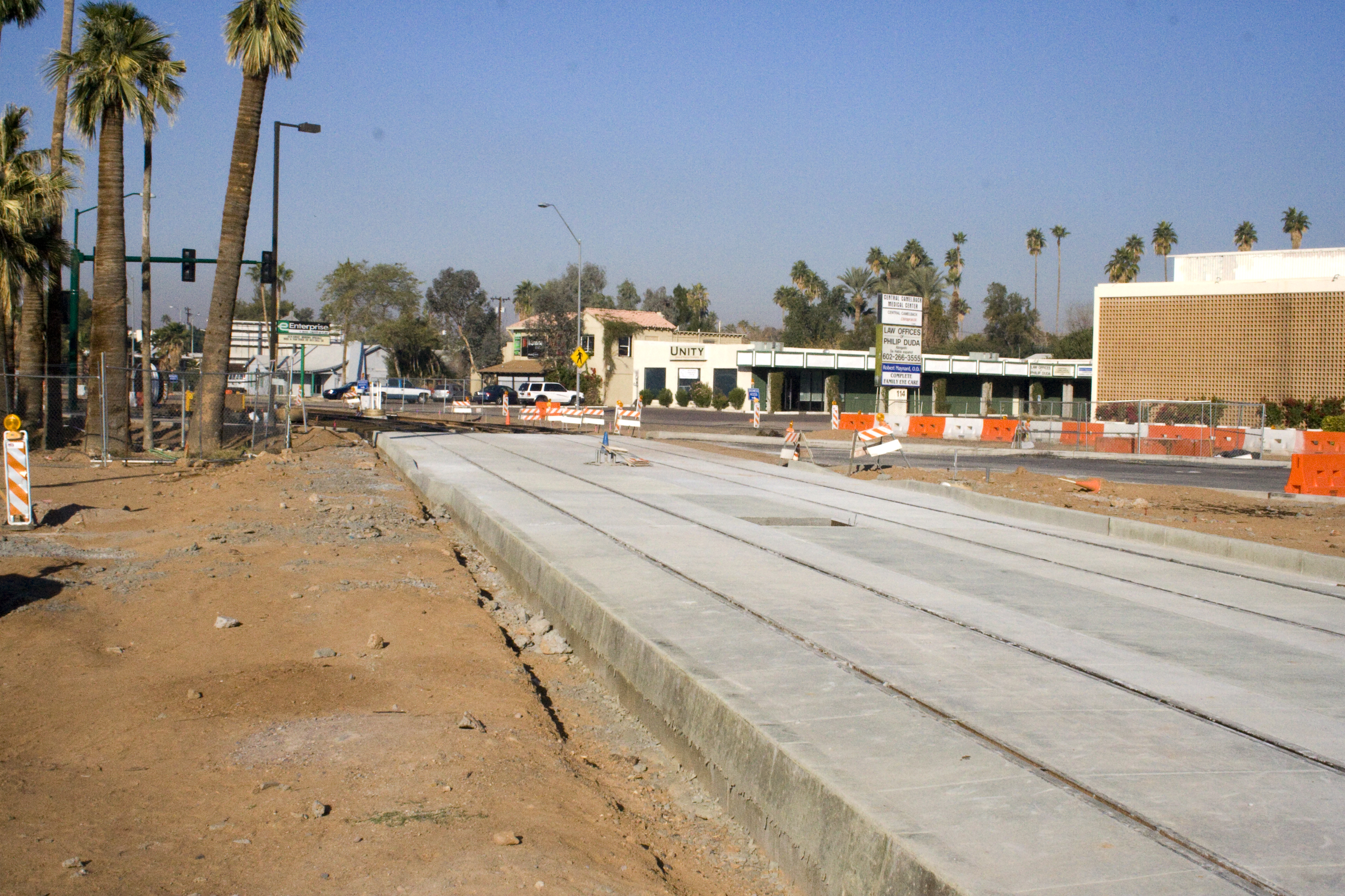 In light of the opening yesterday, I went and dug up a few construction photos I took almost two years ago. METRO Light Rail (Phoenix) construction in 2007.